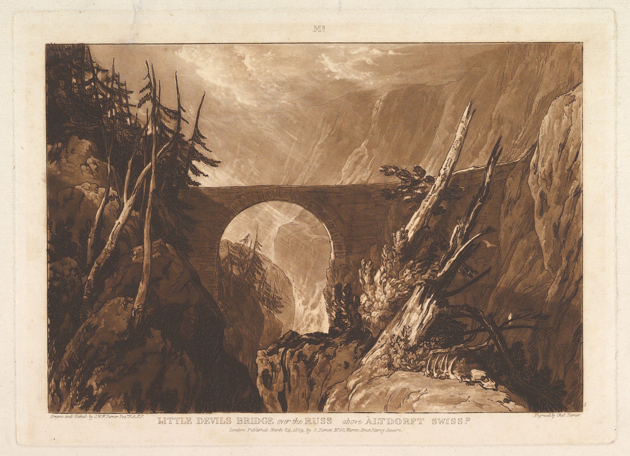 A Devil's Bridge over the Reuss in Switzerland